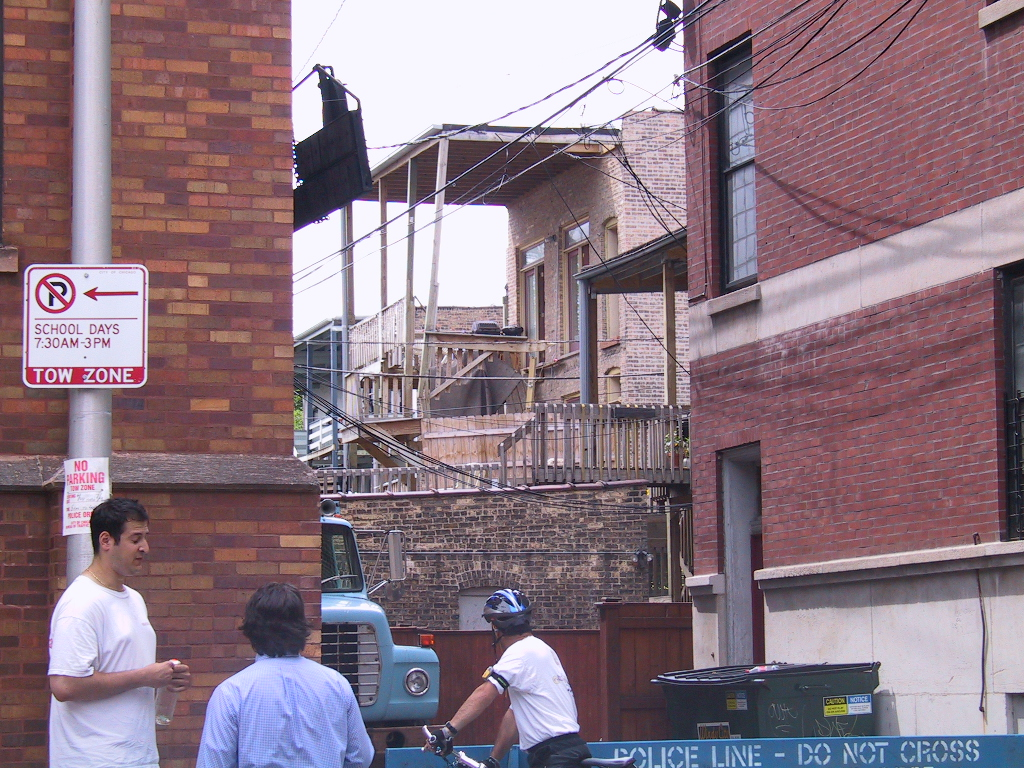 Aftermath of the 2003 Lincoln Park Porch Collapse